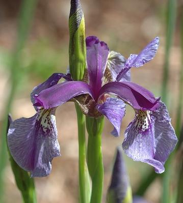 User:Steve nova has identified this as an Iris of some kind.